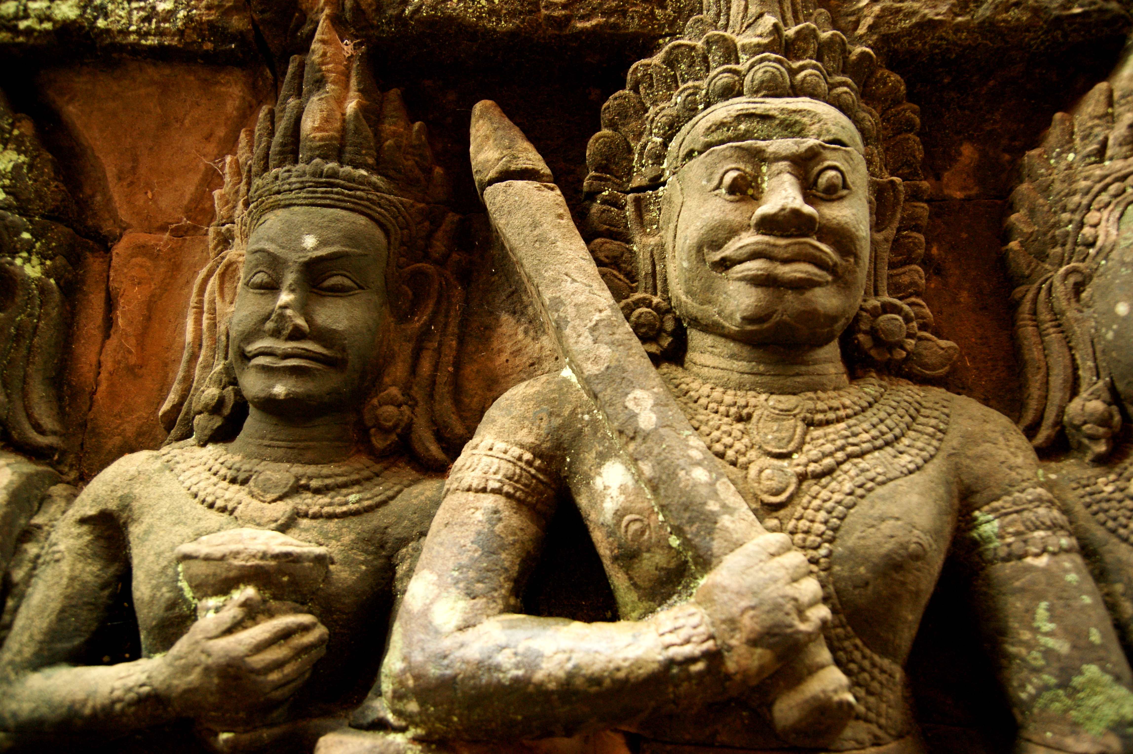 A view of the Terrace of the Leper King in Angkor Thom, Cambodia.